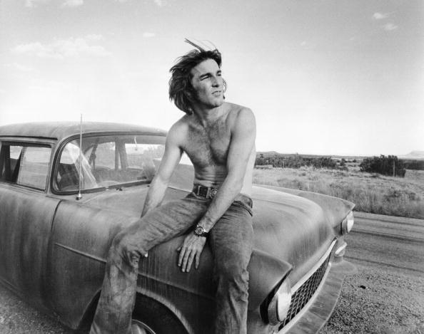 1971 promotional photo of Dennis Wilson for "Two-Lane Blacktop".